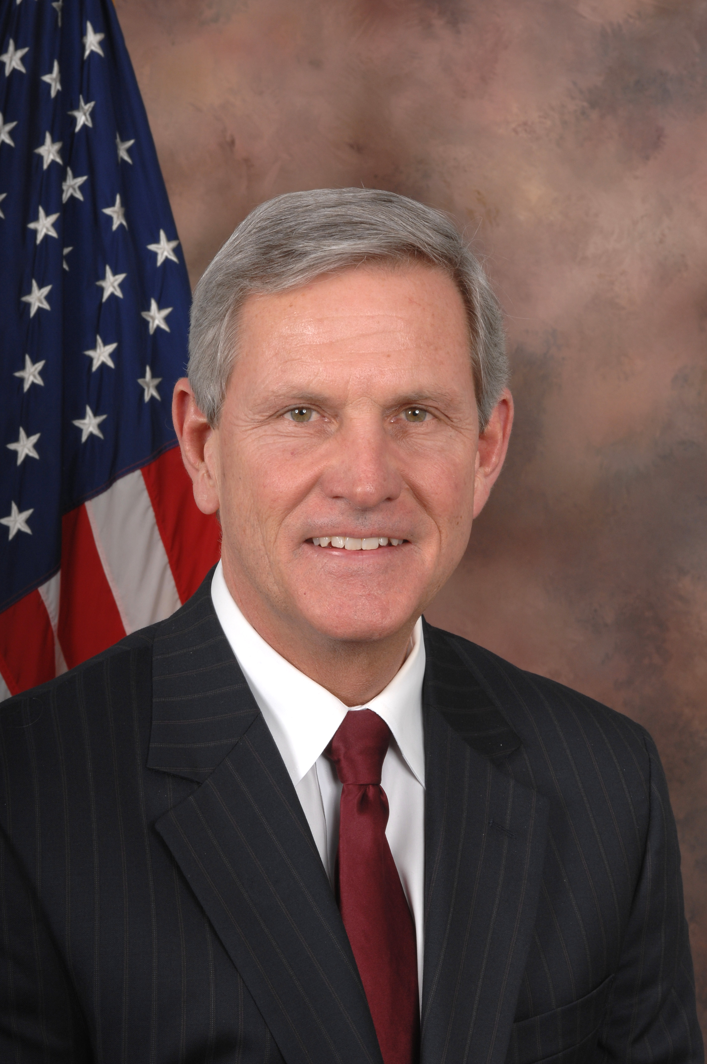 Baron Hill, member of the United States House of Representatives.